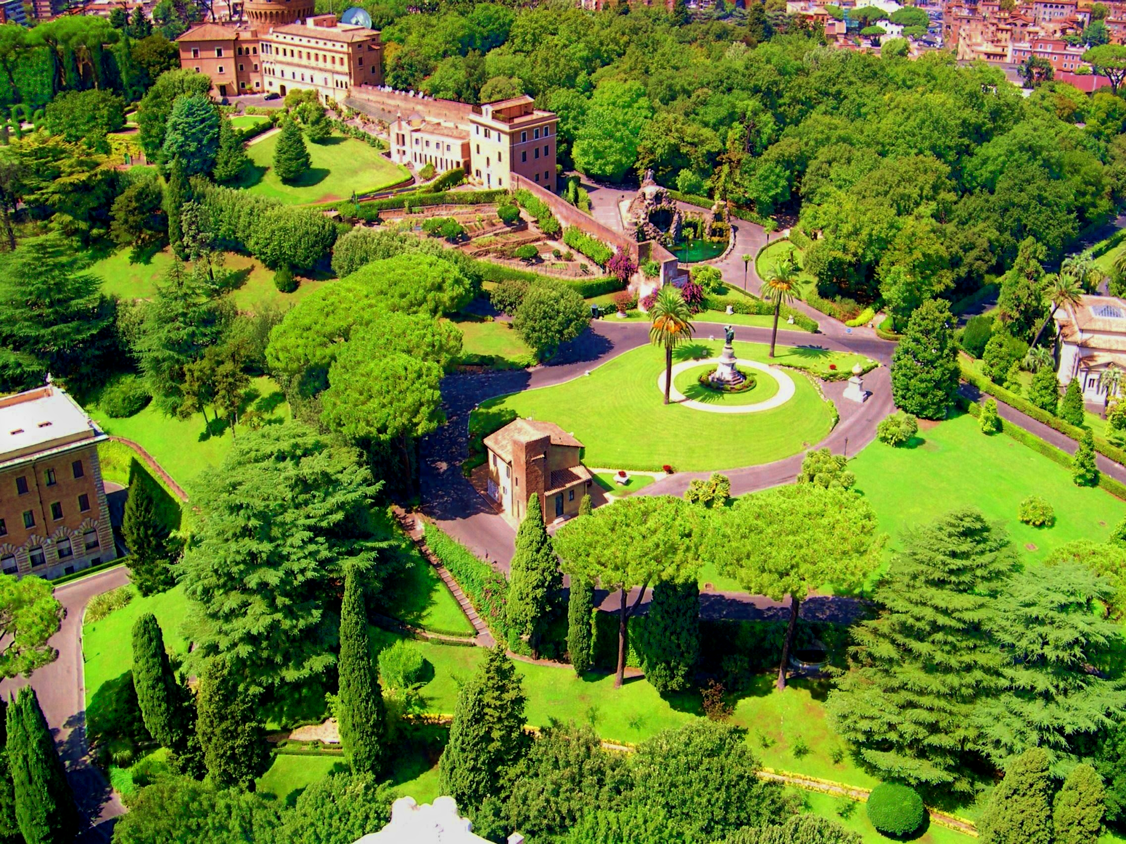 View of the Vatican Gardens